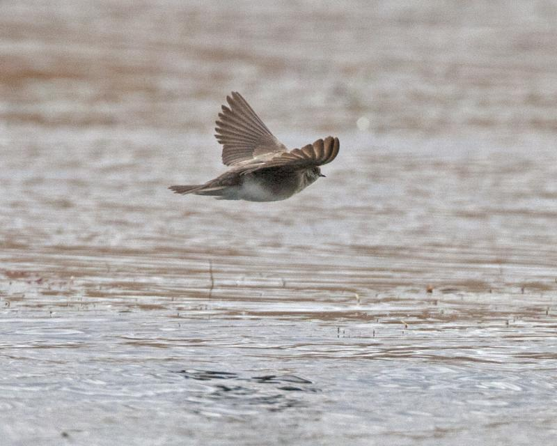 Plain Martin, Brown-throated Martin Riparia paludicola Riparia paludicola paludicola 16th. August 2011 Marievale, Gauteng, South Africa 690V9376